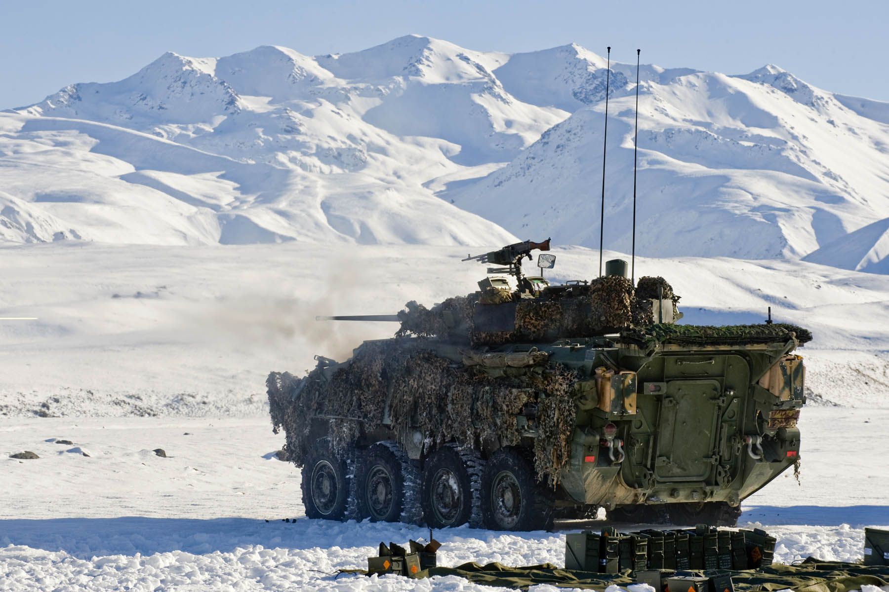 A NZLAV during a static live firing shoot. Exercise Jordan - Queen Alexandera's Mounted Rifles, QAMR. Exercise Jordan was based at the Tekapo Military Camp and ran from 14 June 2010 - 23 June 2010. The exercise included live firing involving the LAVs, LOVs, Pinzgaurs and small arms live firing. Groups involved include QAMR, 3 Troop, Territorial Forces and 3 Sqn.